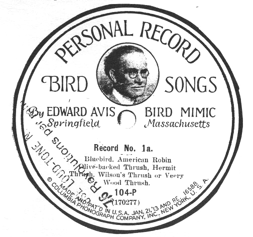 Label of record by Edward Avis